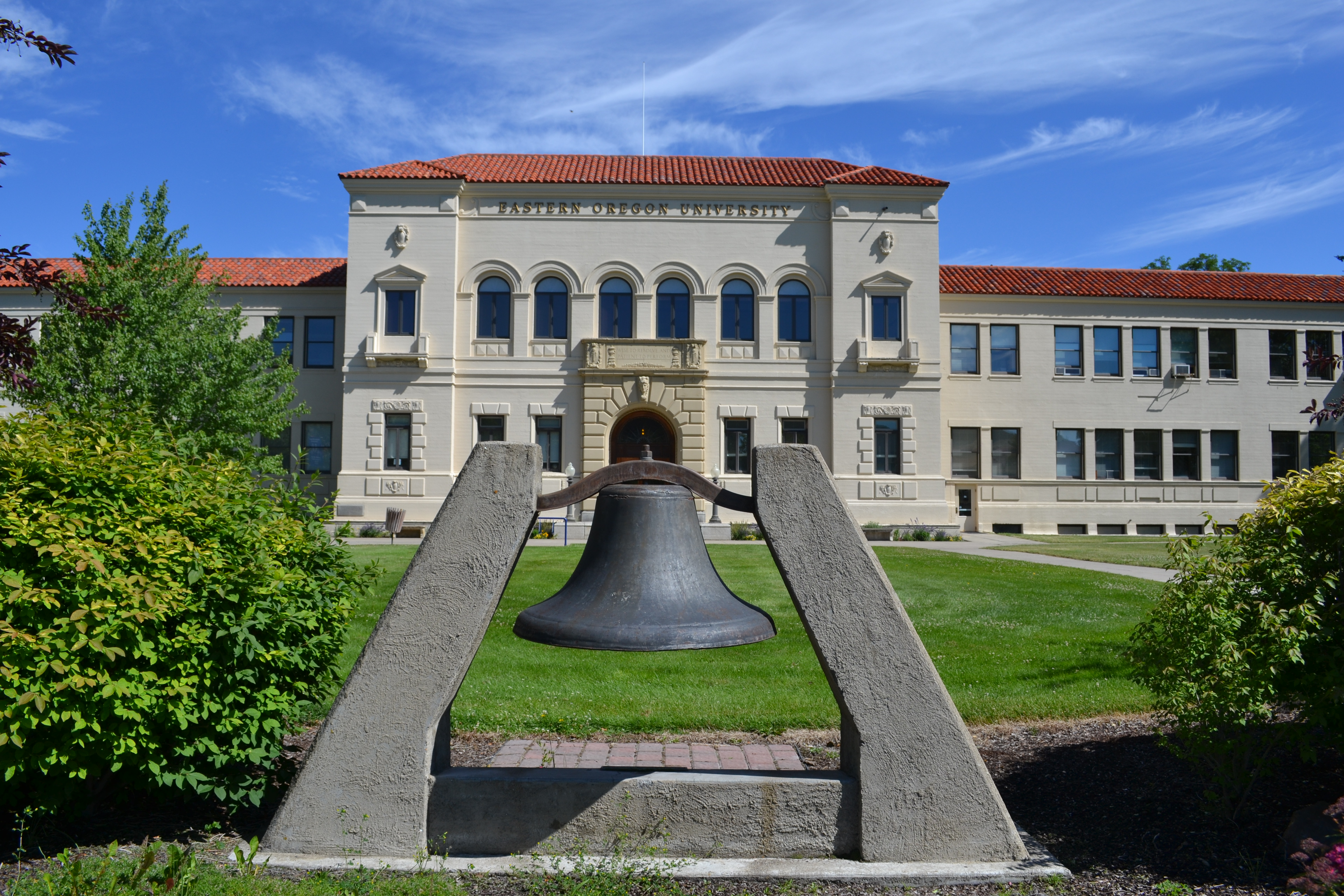 Inlow Hall, Eastern Oregon University, La Grande, Oregon